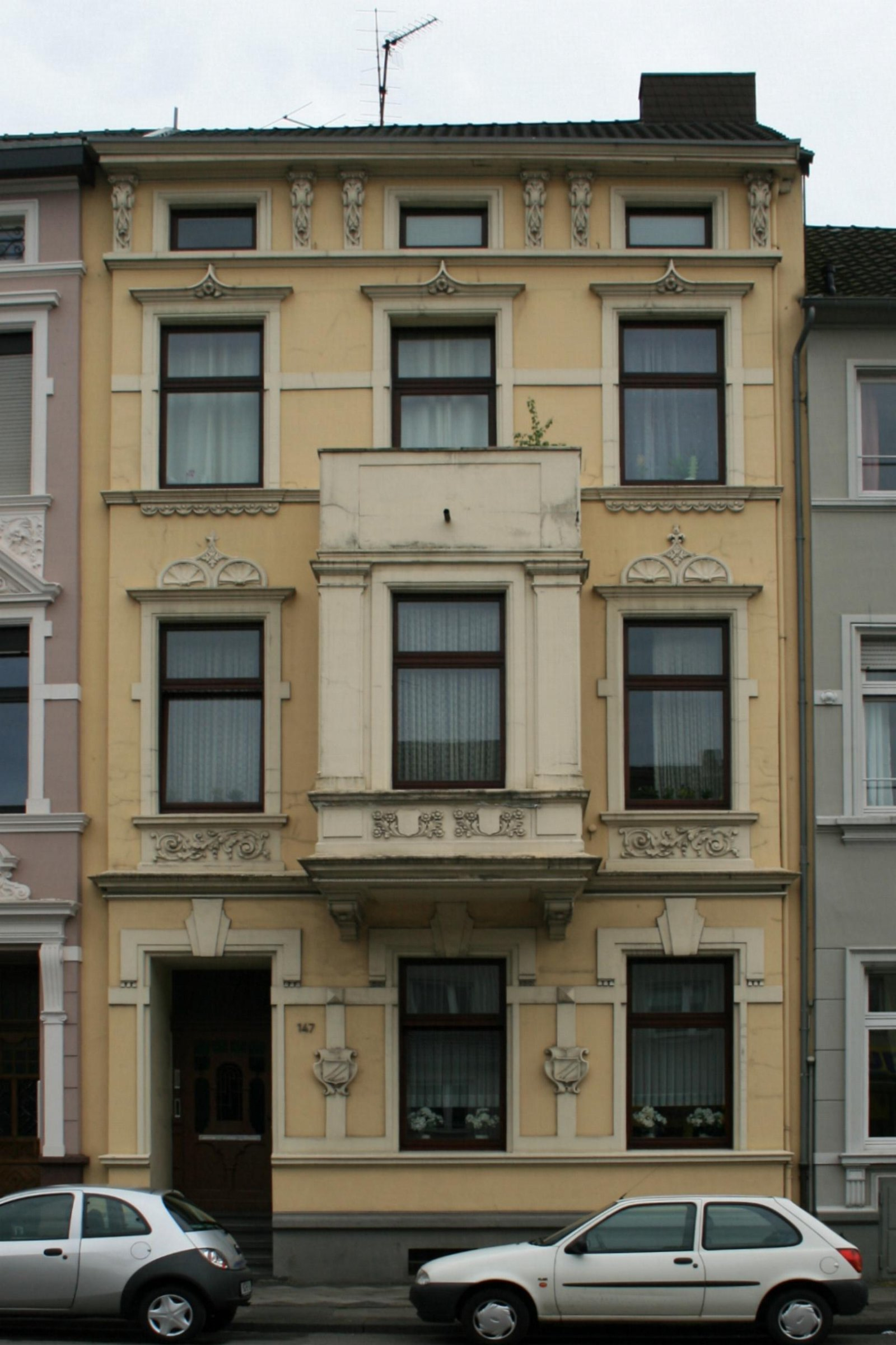 Cultural heritage monument No. V 024 in Mönchengladbach